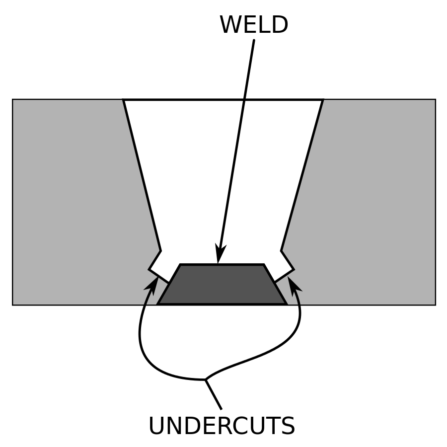 UNDERCUT